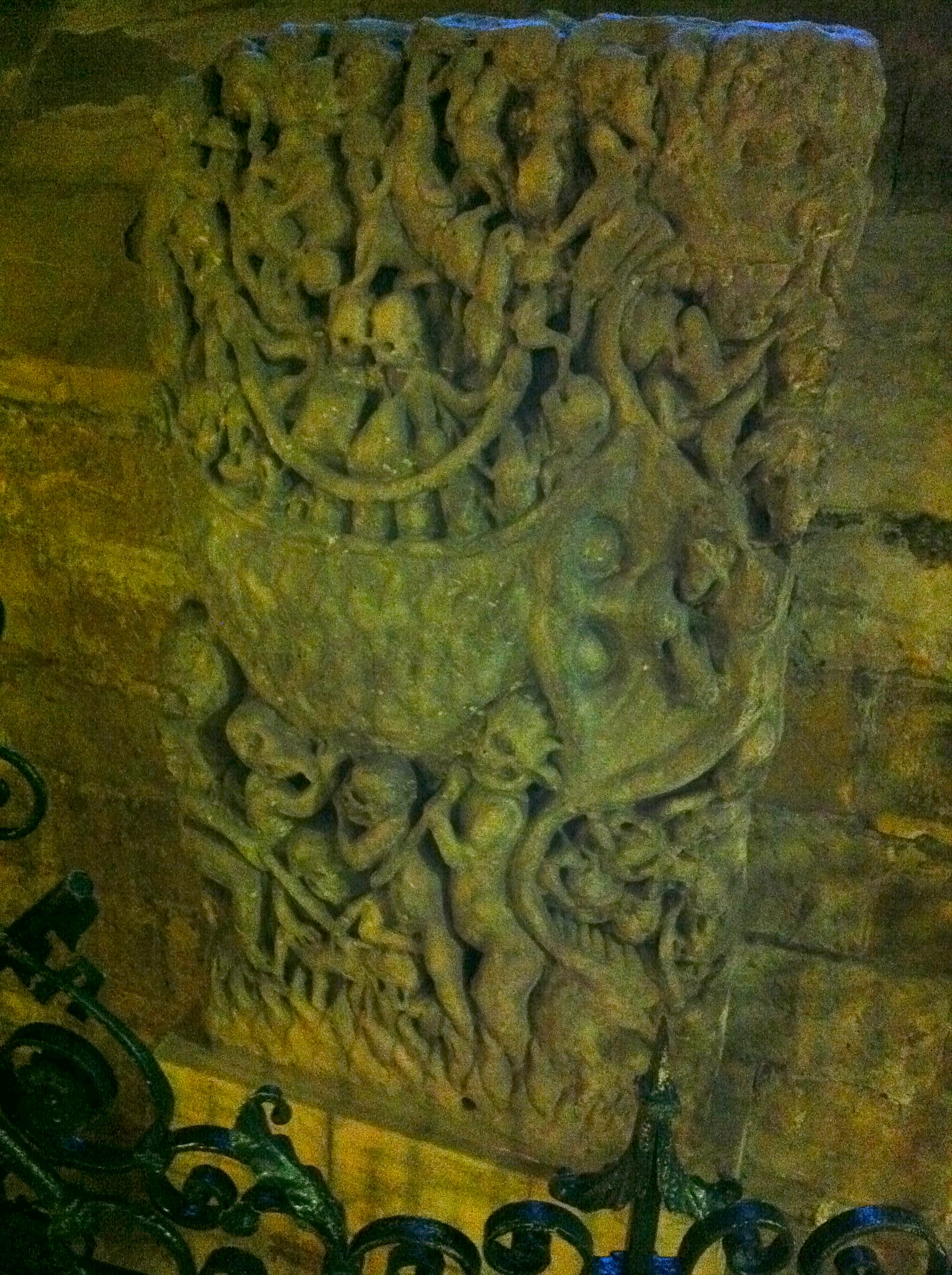 The doomstone in the crypt of York Minster. The doomstone is a survival from the first Norman Minster. It shows Hell's cauldron, or the mouth of Hell. Devils and demons push lost souls into a boiling cauldron. More grinning demons stoke the fire under the cauldron. At the top of the stone to the left is a man carrying two bags of money showing the sin of greed. To his right is a scantily clad woman depicting the sin of lust. The stone is also decorated with toads. Toads were thought to be creatures of magic, associated with evil and darkness.